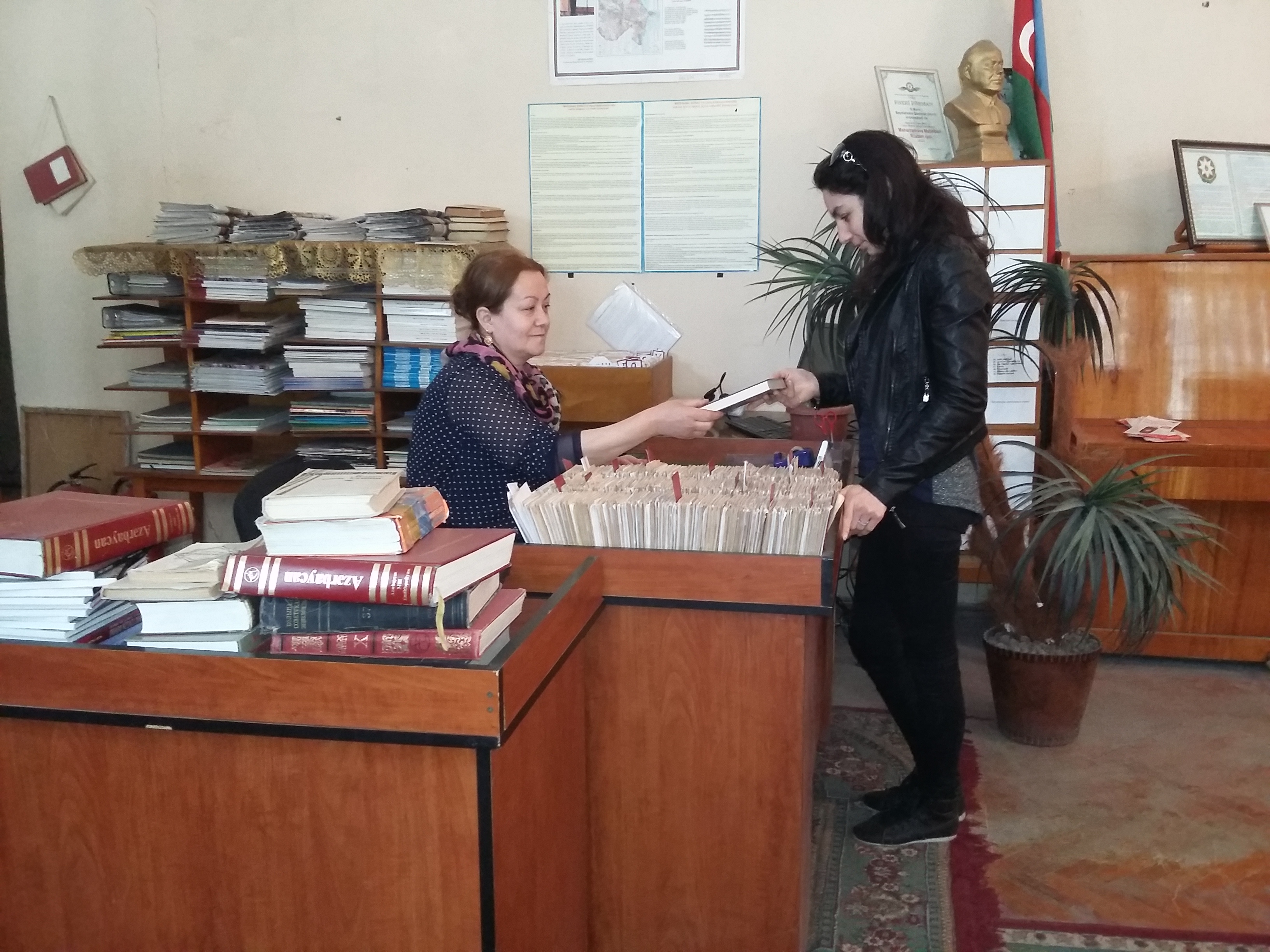 bookreader Nərimanov rayon MKS-nin 1 saylı filialı